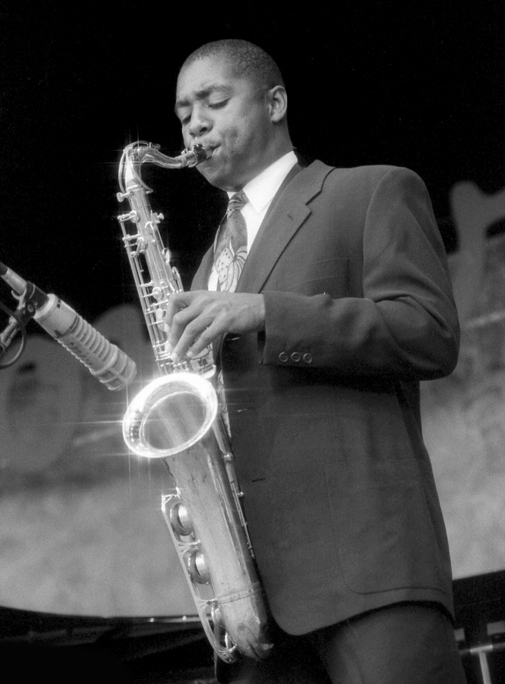 Branford Marsalis at Monterey Jazz Festival CA 9/92. Photo: Brian McMillen /